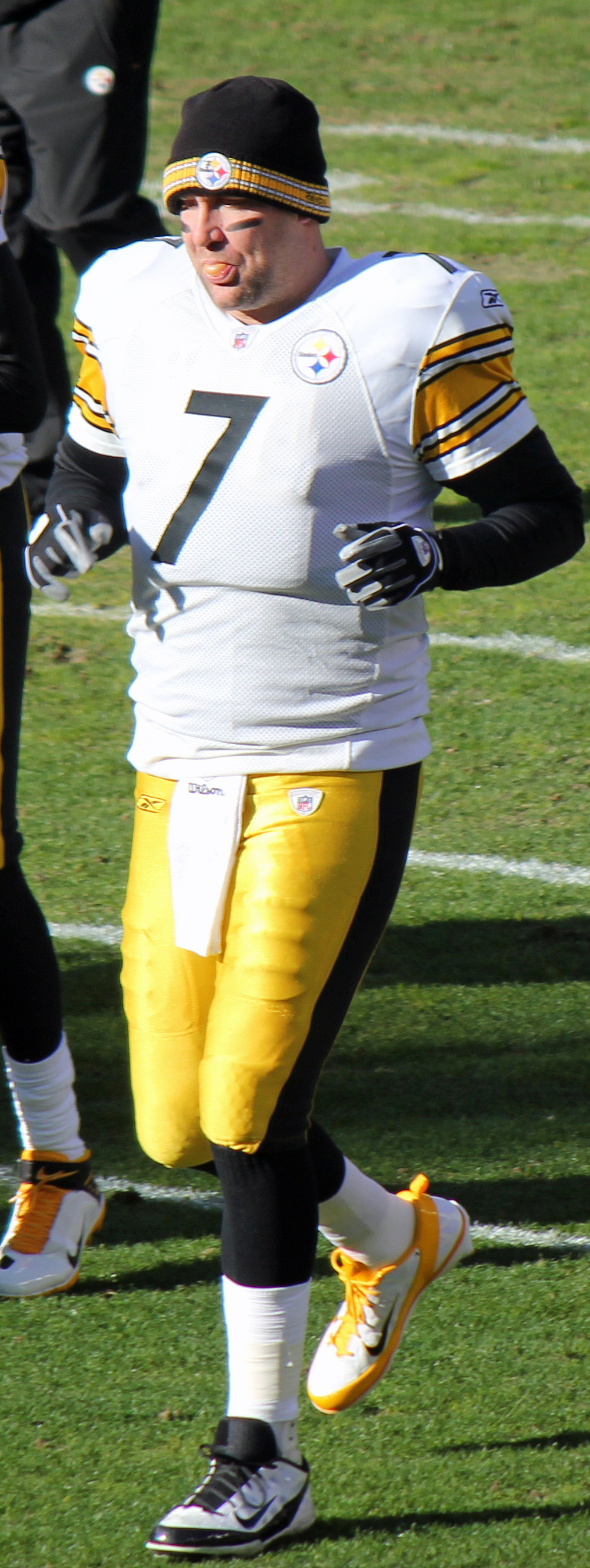 Ben Roethlisberger, a player on the National Football League.